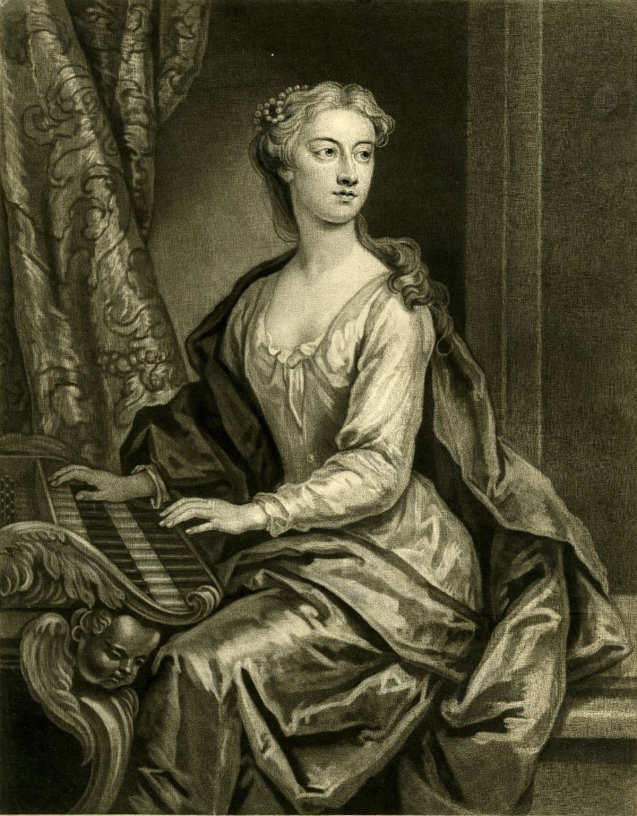 Proof of engraving for mezzotint of Anastasia Robinson by John the Faber the Younger after the 1723 oil painting by John Vanderbank